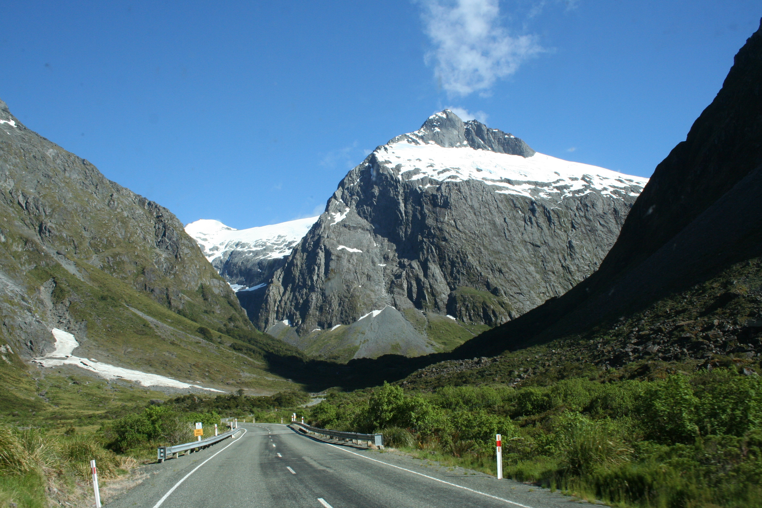 Part of the Milford Sound Road, South Island, New Zealand